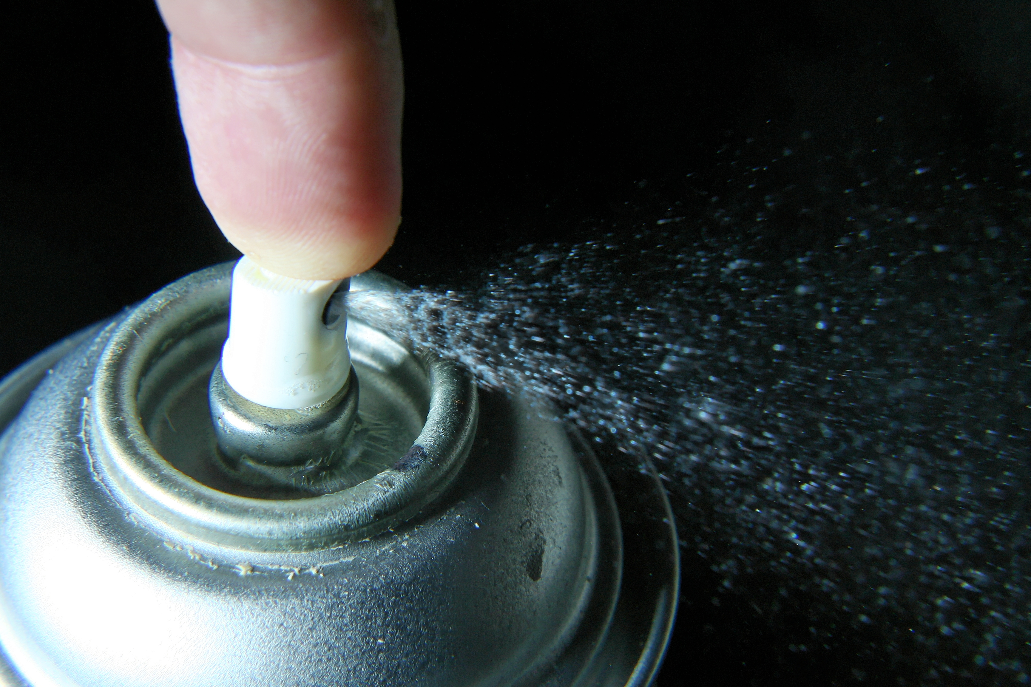 Spray can